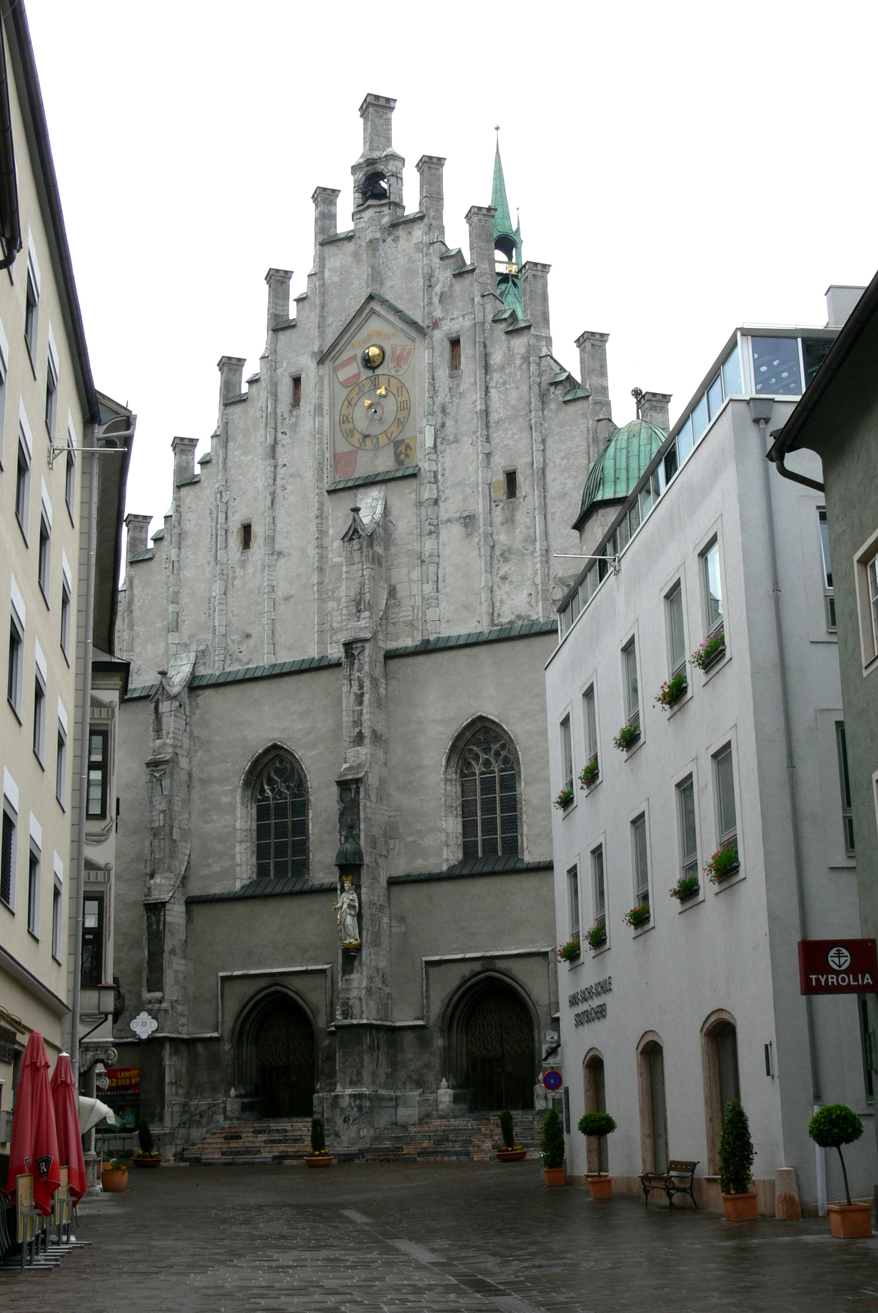 Schwaz ( Tyrol ). City parish church: Facade.